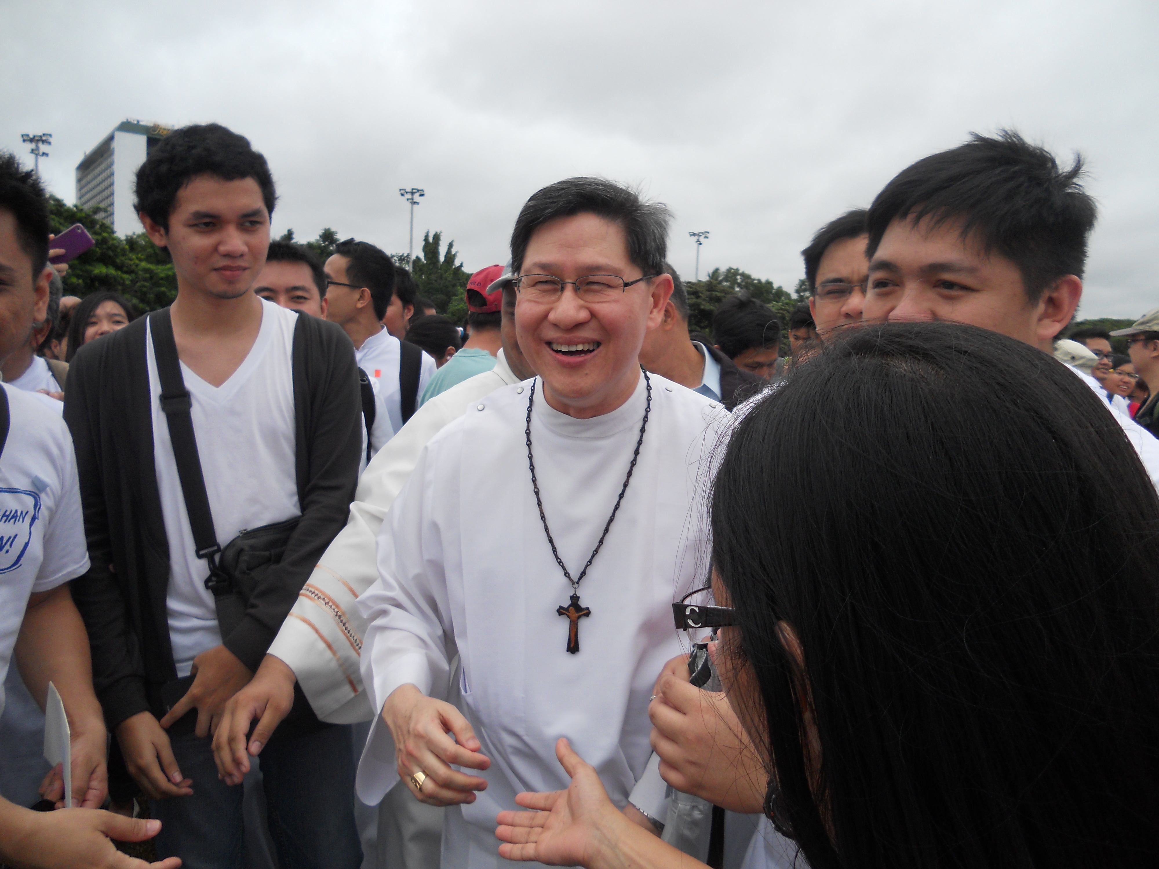 Surprise appearance of Luís Antonio Cardinal Tagle, Archbishop of Manila, at the 26 August 2013 Million People March protest in Manila.